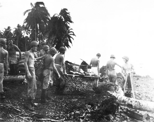 A wounded US Marine is evacuated after a Japanese air raid on Rendova on August 1, 1943.